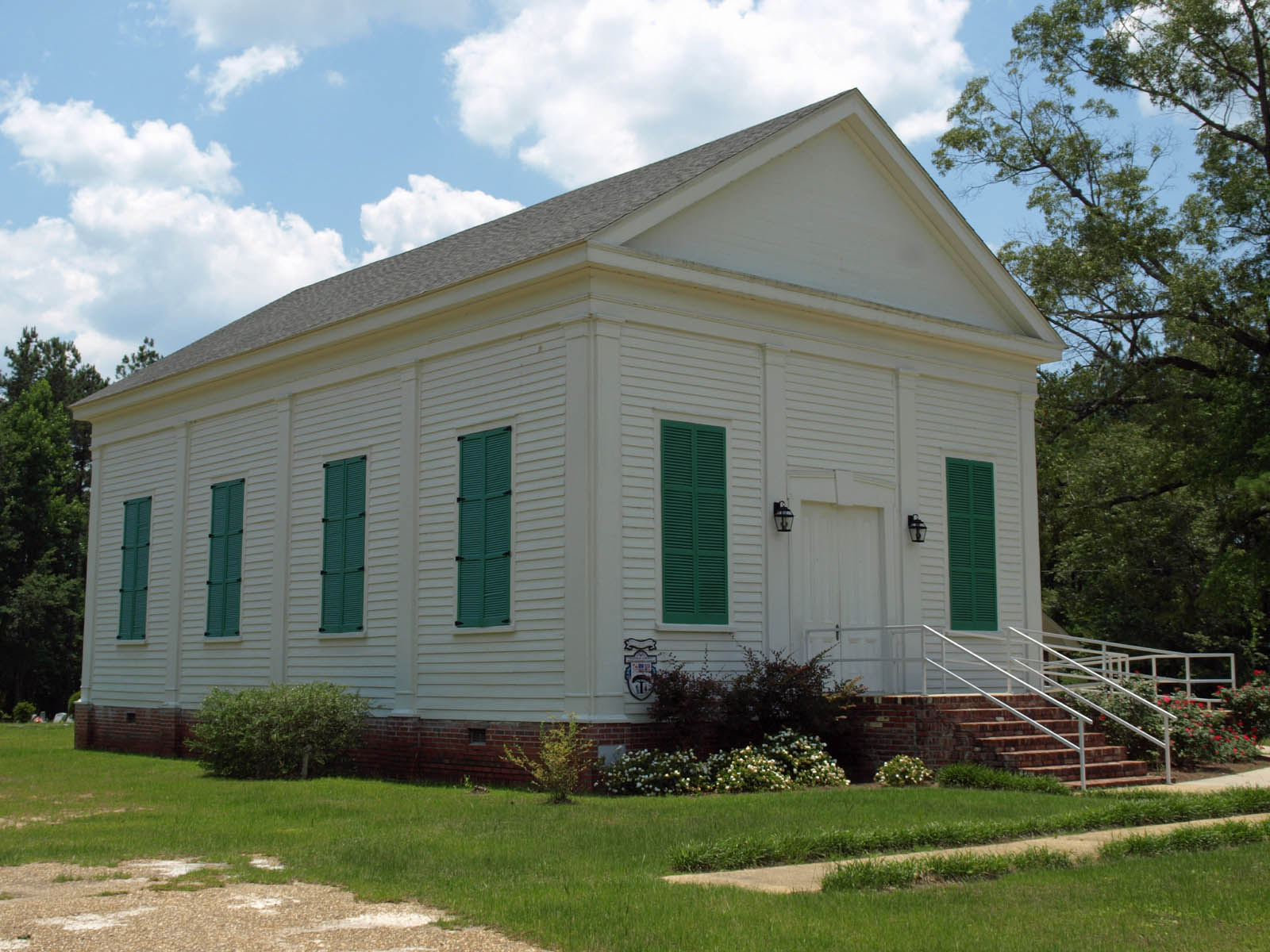 Montgomery Hill Baptist Church in Tensaw, Alabama, listed on the National Register of Historic Places